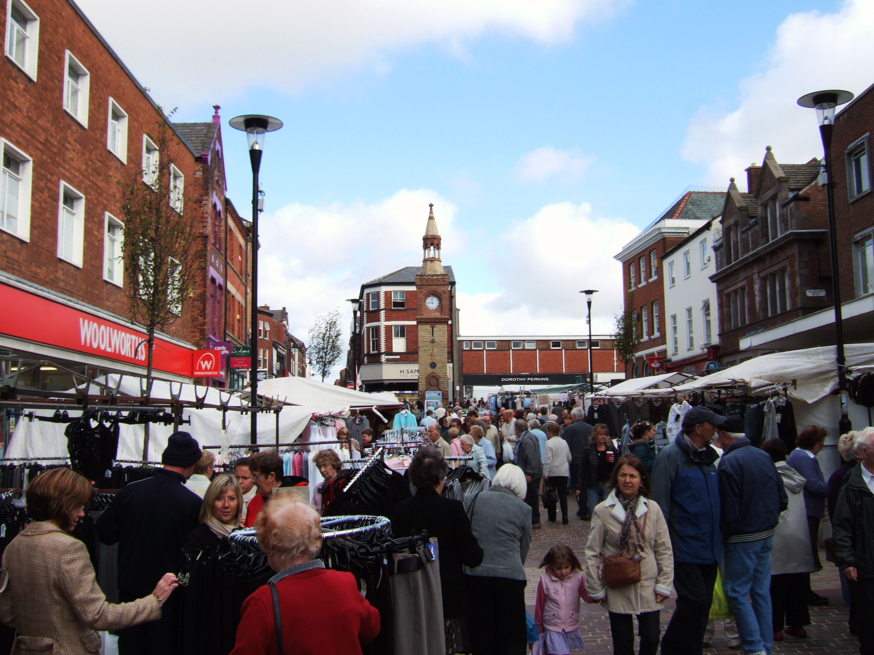 Market day in Ormskirk, Lancashire, England. Thursday has been market day in Ormskirk since at least 1292.